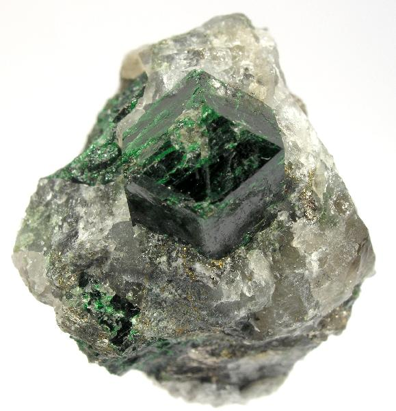 Quartz, Uvarovite Locality: Outokumpu Cu-Zn deposit, Outokumpu Cu-Co-Zn-Ni-Ag-Au ore field, Itä-Suomen Lääni, Finland (Locality at ) Size: thumbnail, 2.6 x 2.5 x 2.3 cm Uvarovite on Quartz A sharp, lustrous, deep green Uvarovite garnet crystal with excellent emerald-green color from the famous Outokumpu Mine of Finland. The sharp, 1.2 cm crystal has textbook dodecahedral form and is in remarkably good condition. Uvarovite is the calcium chromium garnet group end member. This is a classic specimen from a premier locality, with a relatively large crystal. It makes for a very aesthetic thumbnail